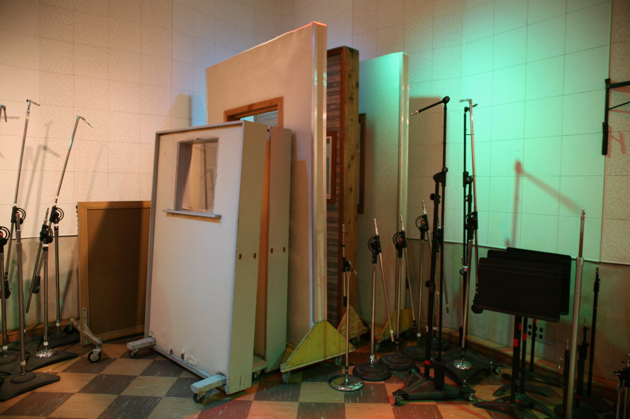 Sound walls used during recordings